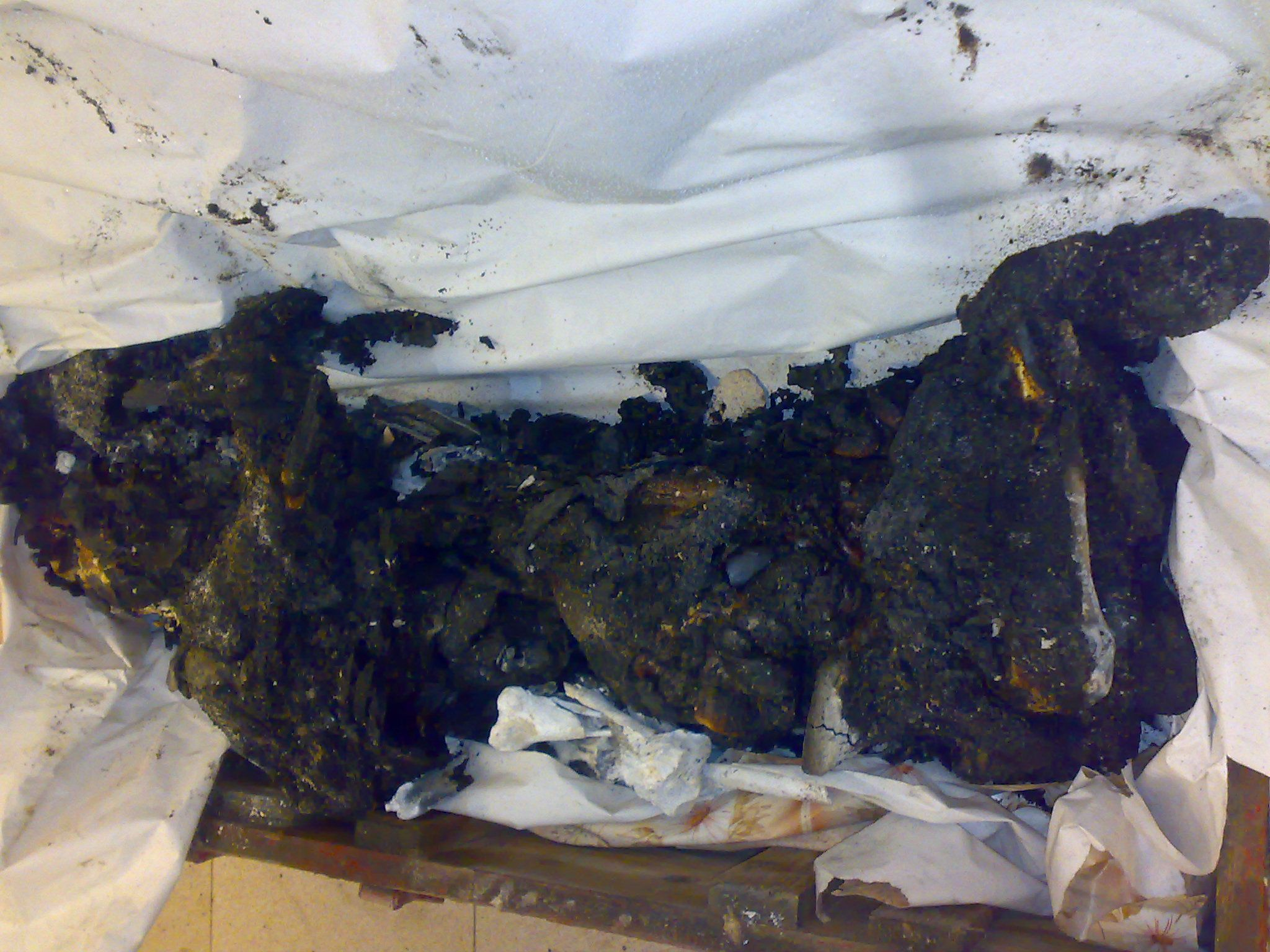 Second Chechen War